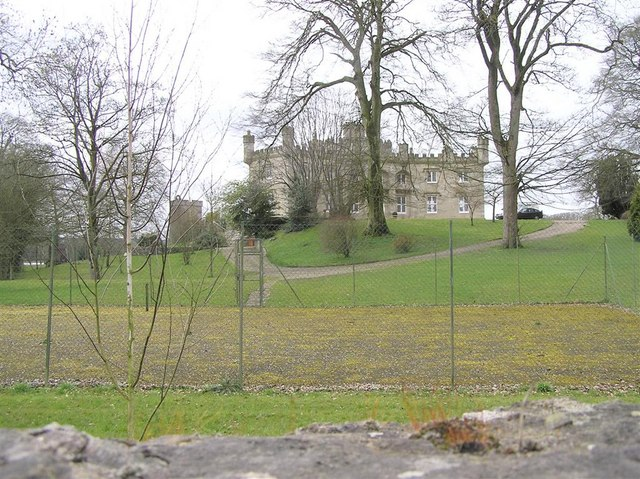 Augher Castle, County Tyrone The castle dismantled by order of parliament, and continued in a state of dilapidation and neglect till 1832, when it was restored and a large and handsome mansion built adjoining it by Sir J. M. Richardson Bunbury, Bart. The ancient building consisted of a pentagonal tower surrounded by a wall 12 feet high and flanked by four circular towers; the wall has been removed, but one of the round towers has been restored; and the entrance gateway has also been removed and rebuilt on an elevated situation commanding some fine views, in which the remains of the old castle form an interesting object: the mansion is situated in a well-wooded demesne of 220 acres, and upon the margin of a beautiful lake.